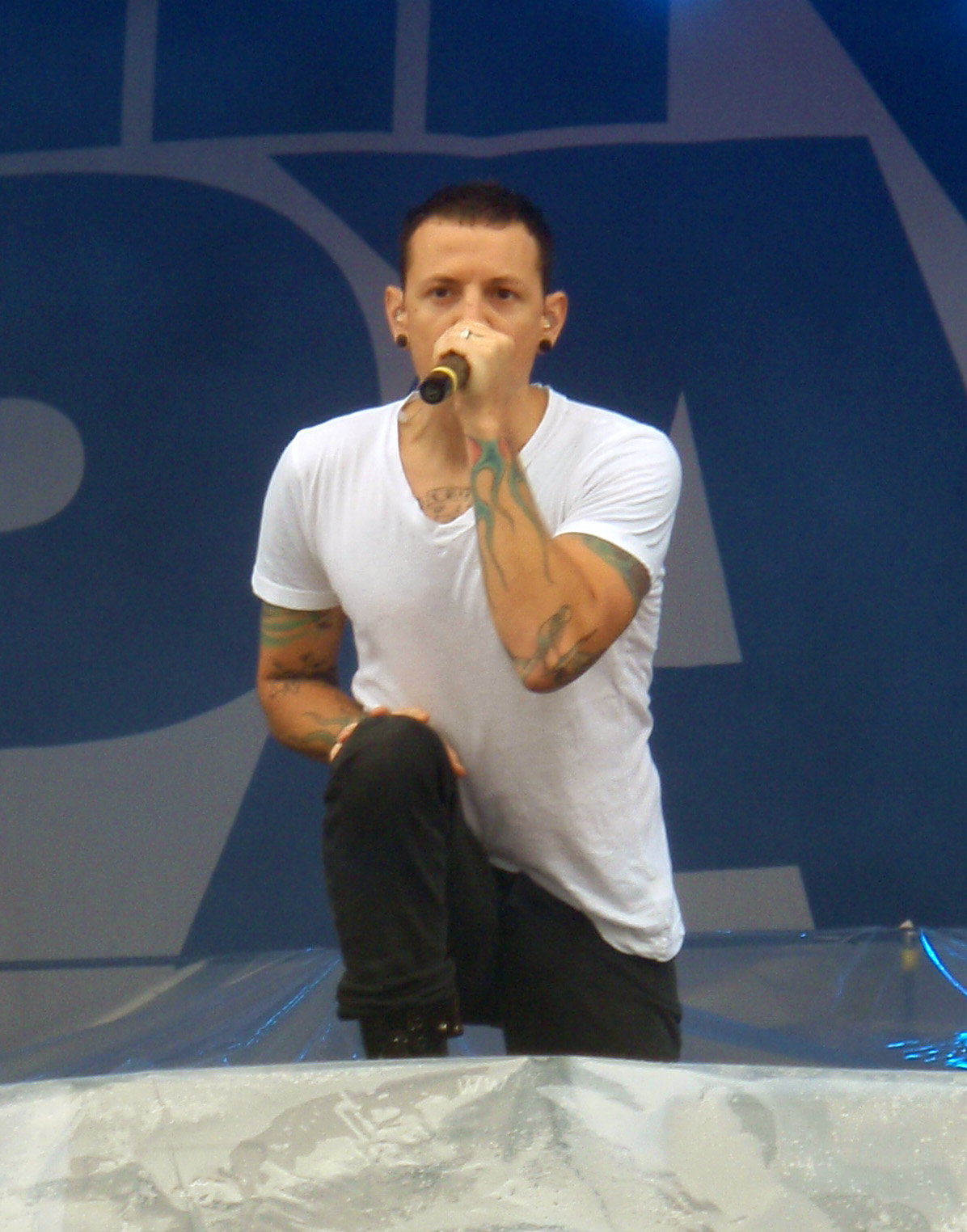 Chester Bennington from Linkin Park performing at Sonisphere Festival in Kirjurinluoto, Pori, Finland.